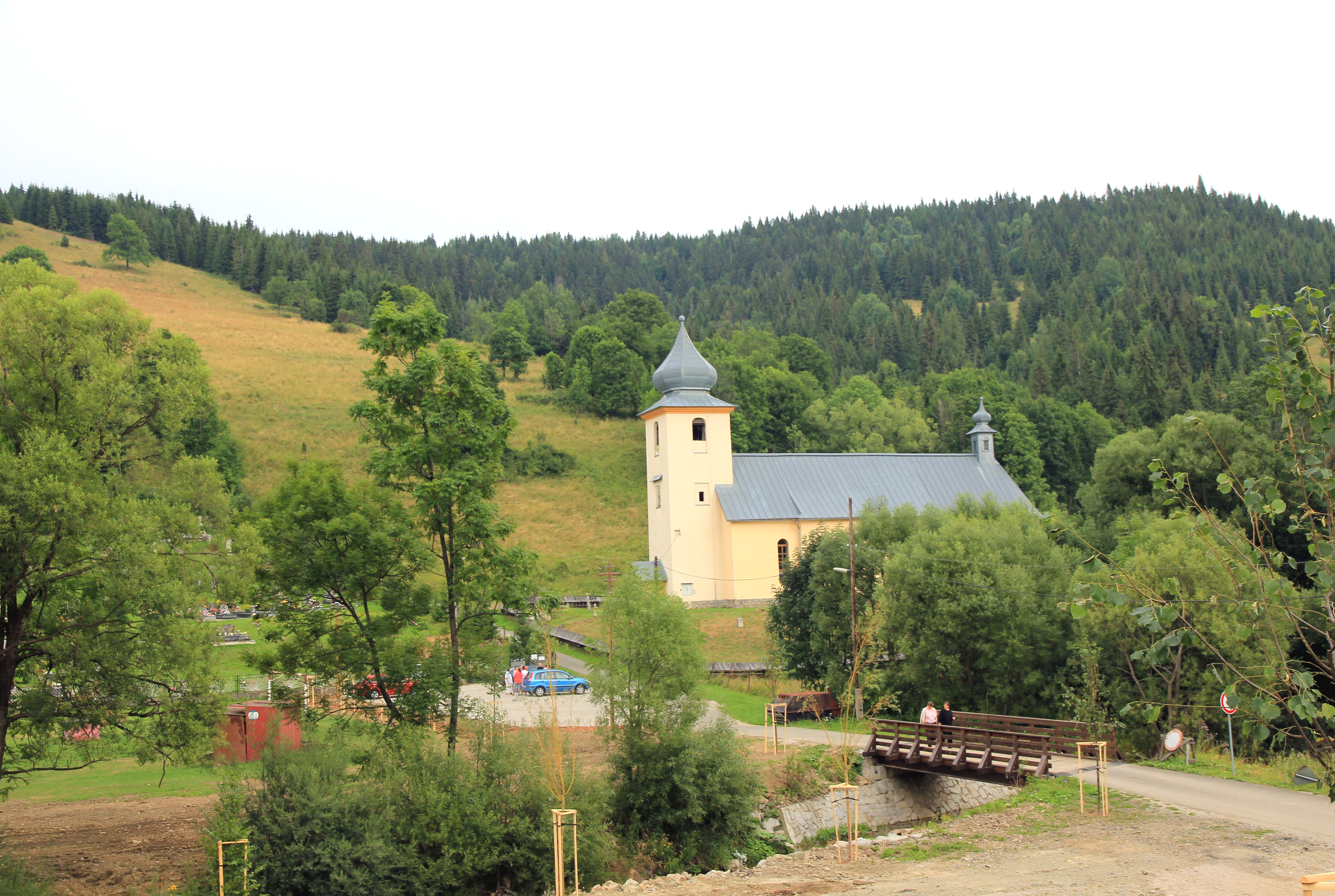 View on Church of St. Michael in municipality Osturňa, Slovakia